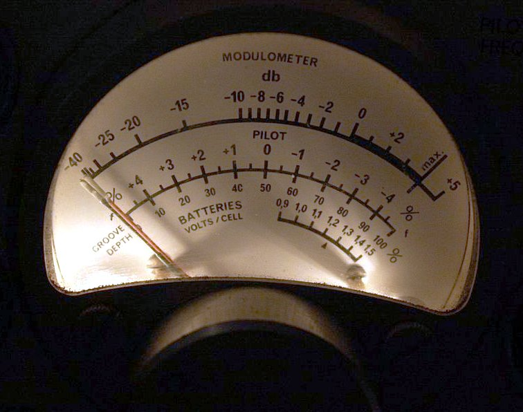 NAGRA Modulometer stereo meter. Red indicating track one (commonly left) and green indicating track two (commonly right)